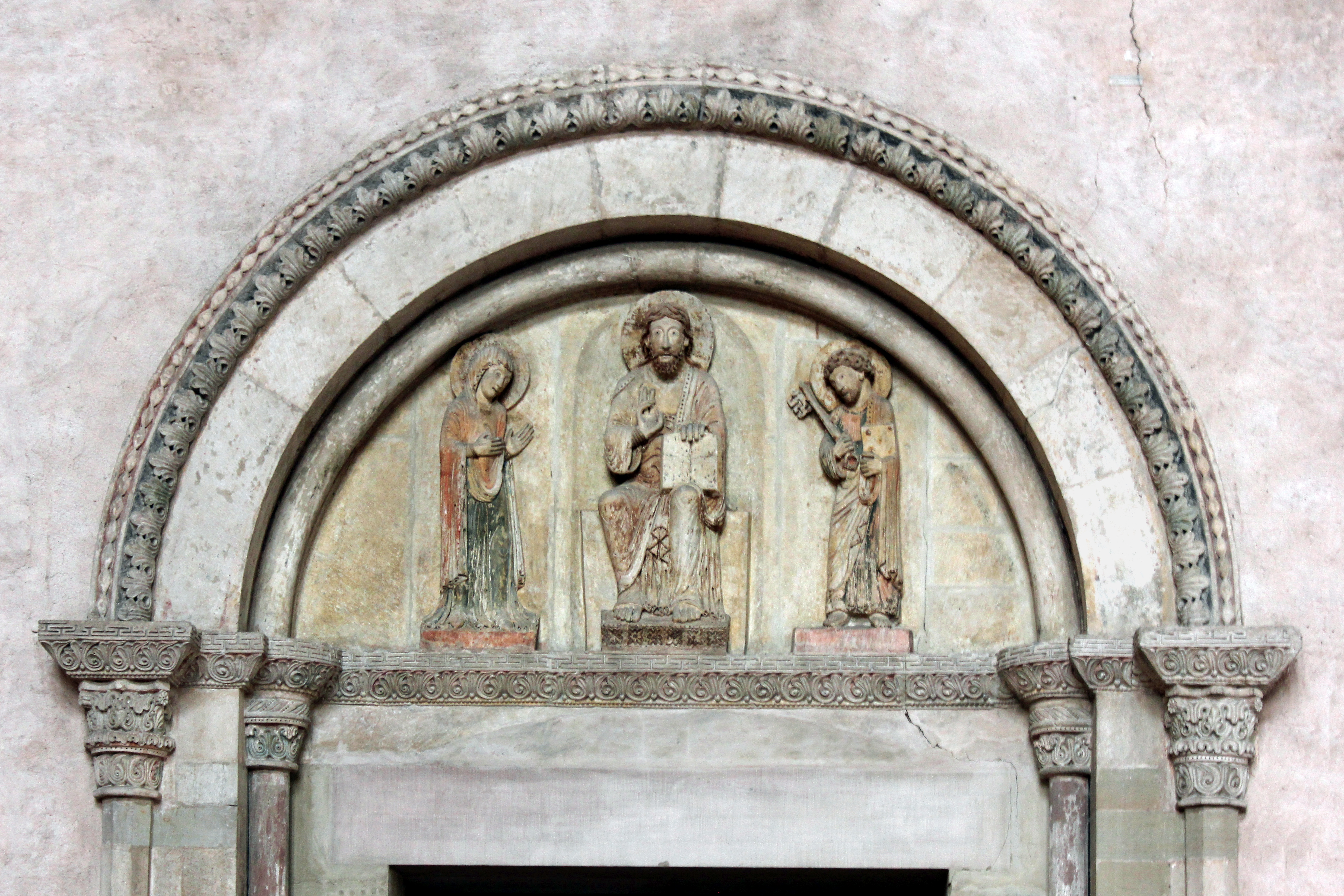 Tympanon at the entrance from the Trier cathedral to the Church of Our Lady (about 1180): in the middle Christ, to the left Maria, to the right saint Peter